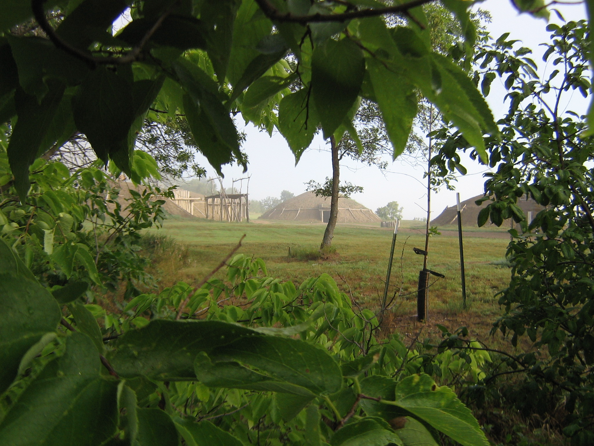 The partially-reconstructed Mandan village On-a-Slant at Fort Abraham Lincoln State Park